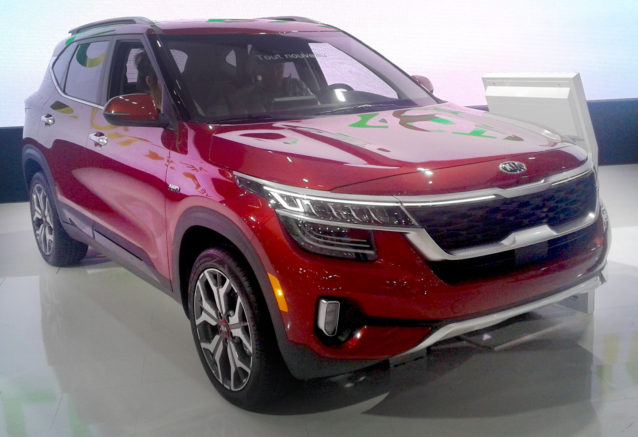 2020 Kia Seltos photographed in Montréal , Québec, Canada at the 2020 Montréal International Auto Show .